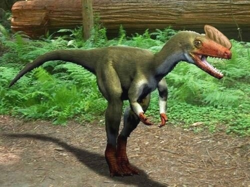 Proceratosaurus